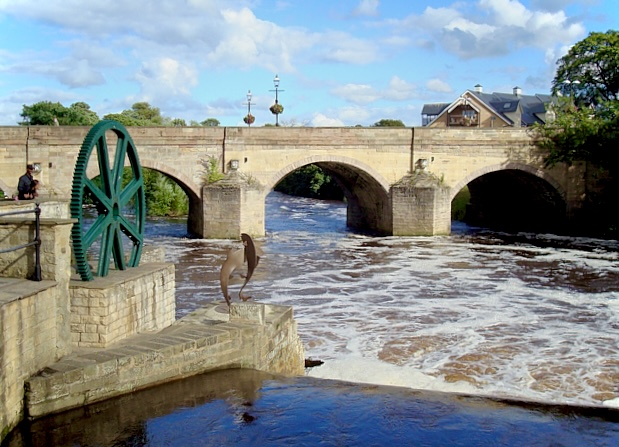 Wetherby/Mickletwaite bridge and Wetherby weir. The bridge originally carried the Great North Road - the present-day A1 - across the River Wharfe until the town was bypassed in the 1960s. Note the leaping salmon sculpture.